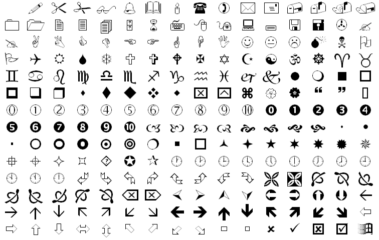 Mosaic of characters from the Wingdings font